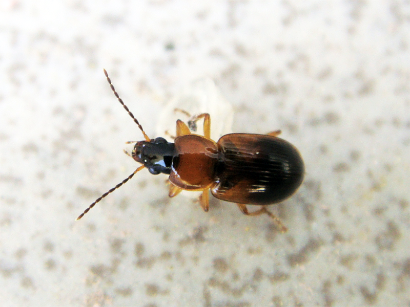 Stenolophus teutonus in Ansião, Leiria, Portugal